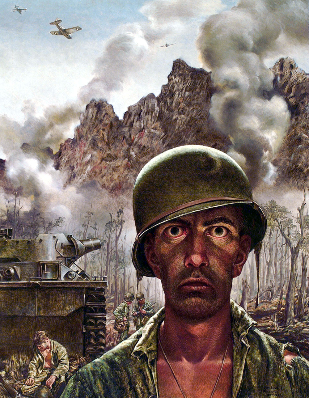 "The 2000 Yard Stare", by Thomas Lea, 1944, WWII.